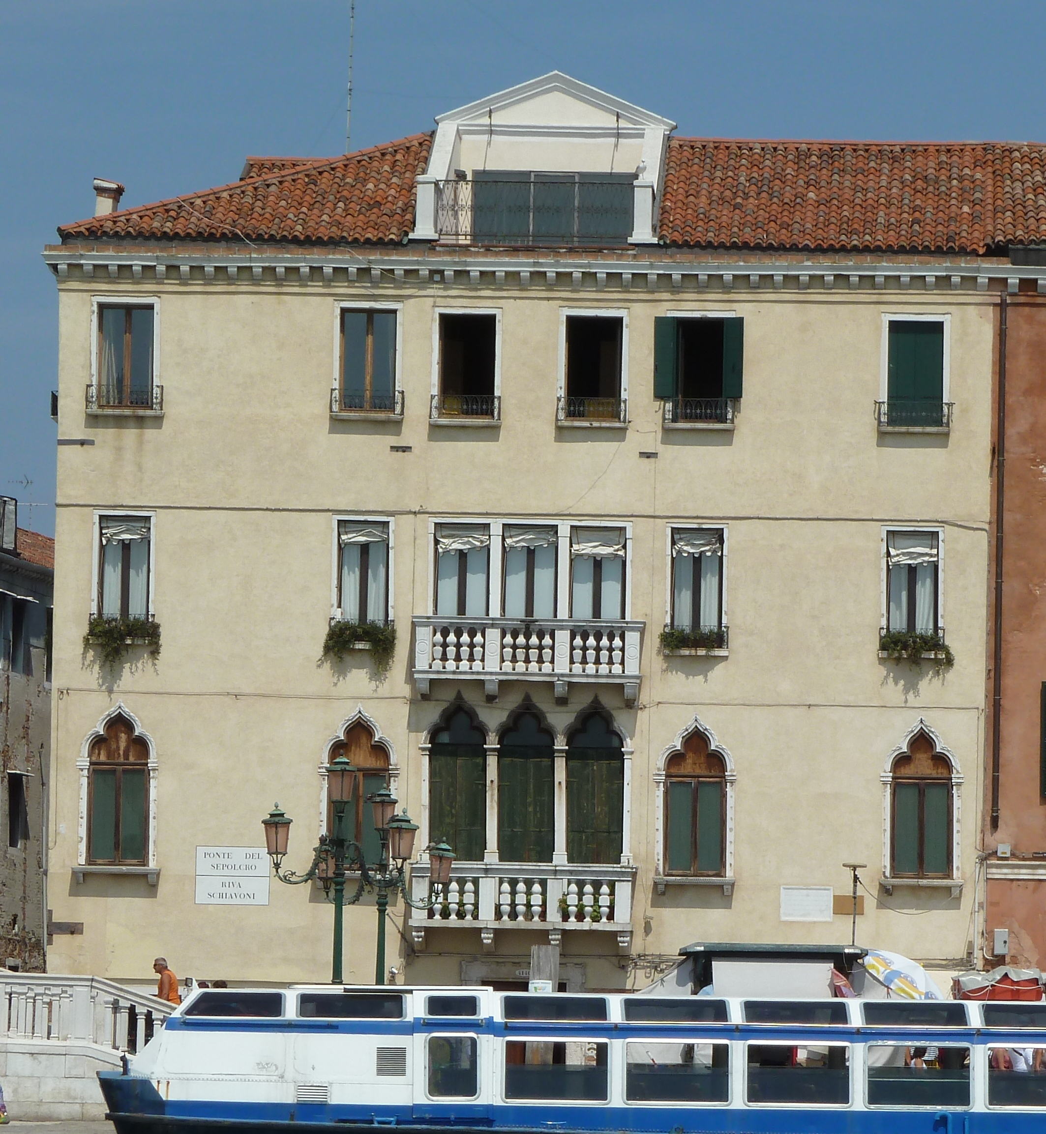 pal molina